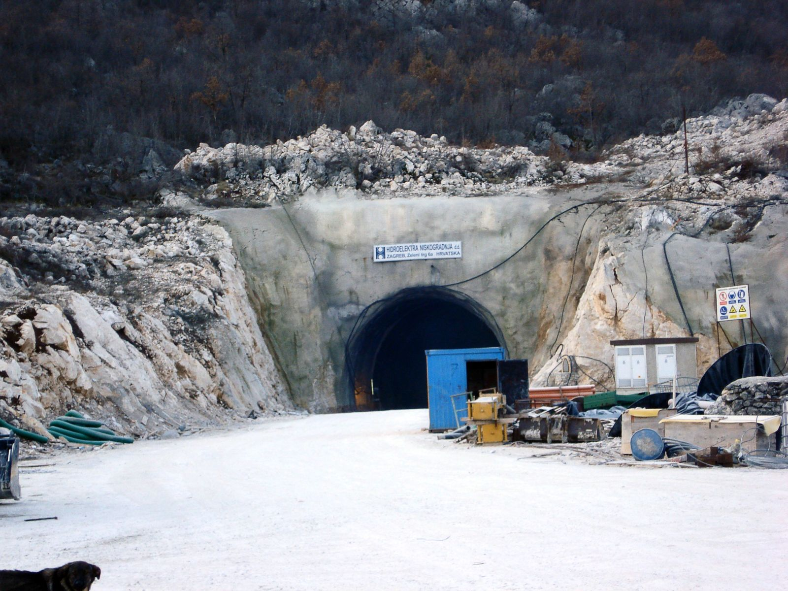 Northern entrance of the Sveti Ilija Tunnel near Rastovac, Zagvozd, Croatia.